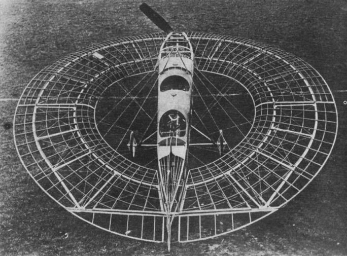 Photograph of the Lee-Richards Annular Monoplane No.1